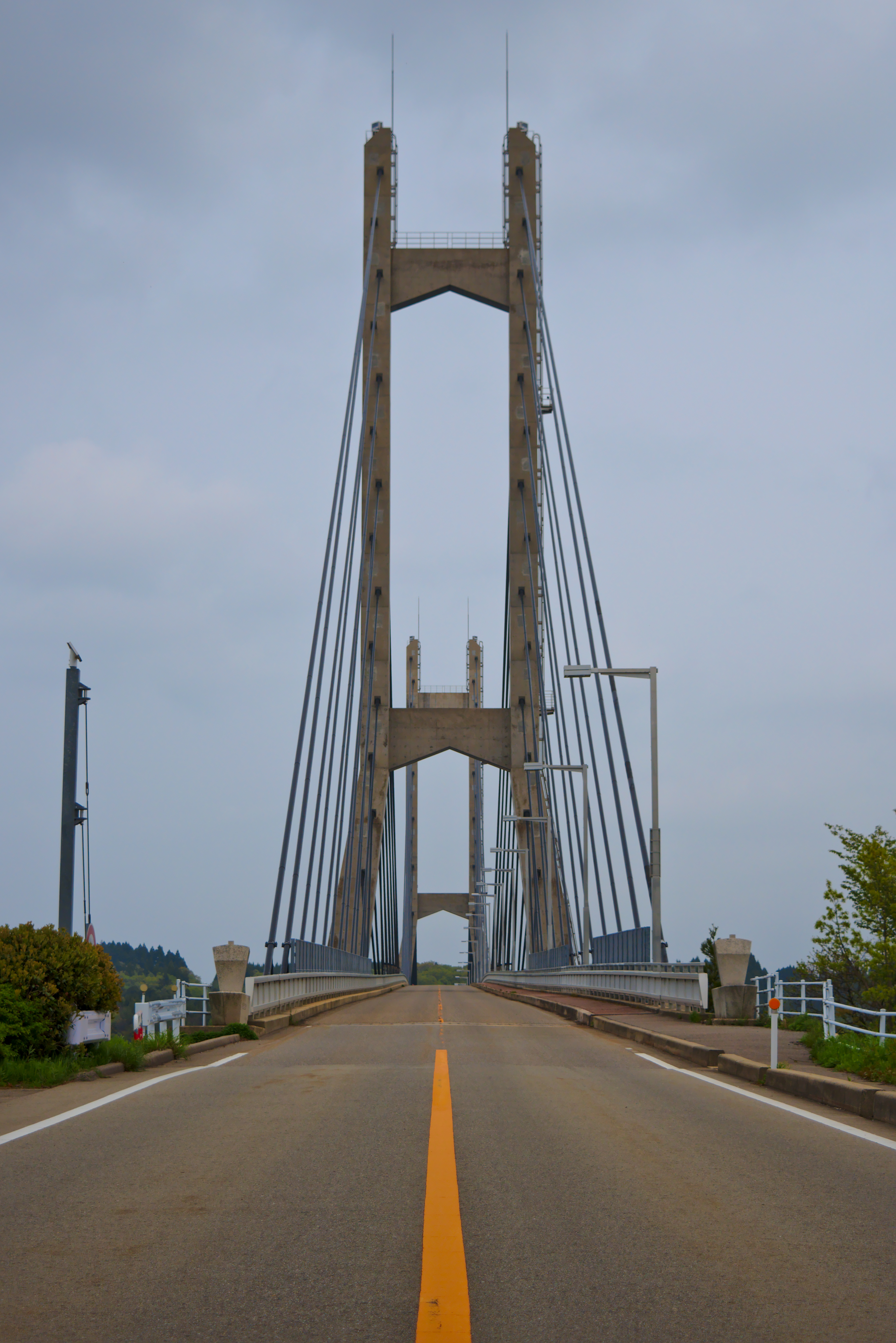 Twin tower bridge Nakanoto nōdō bashi (Nanao, Ishikawa)